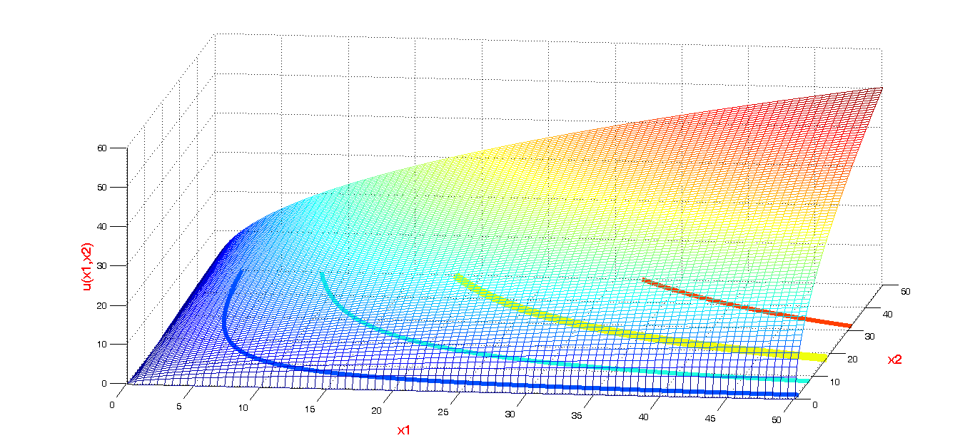 Utility Function (2 goods), Cobb-Douglas type, with contours